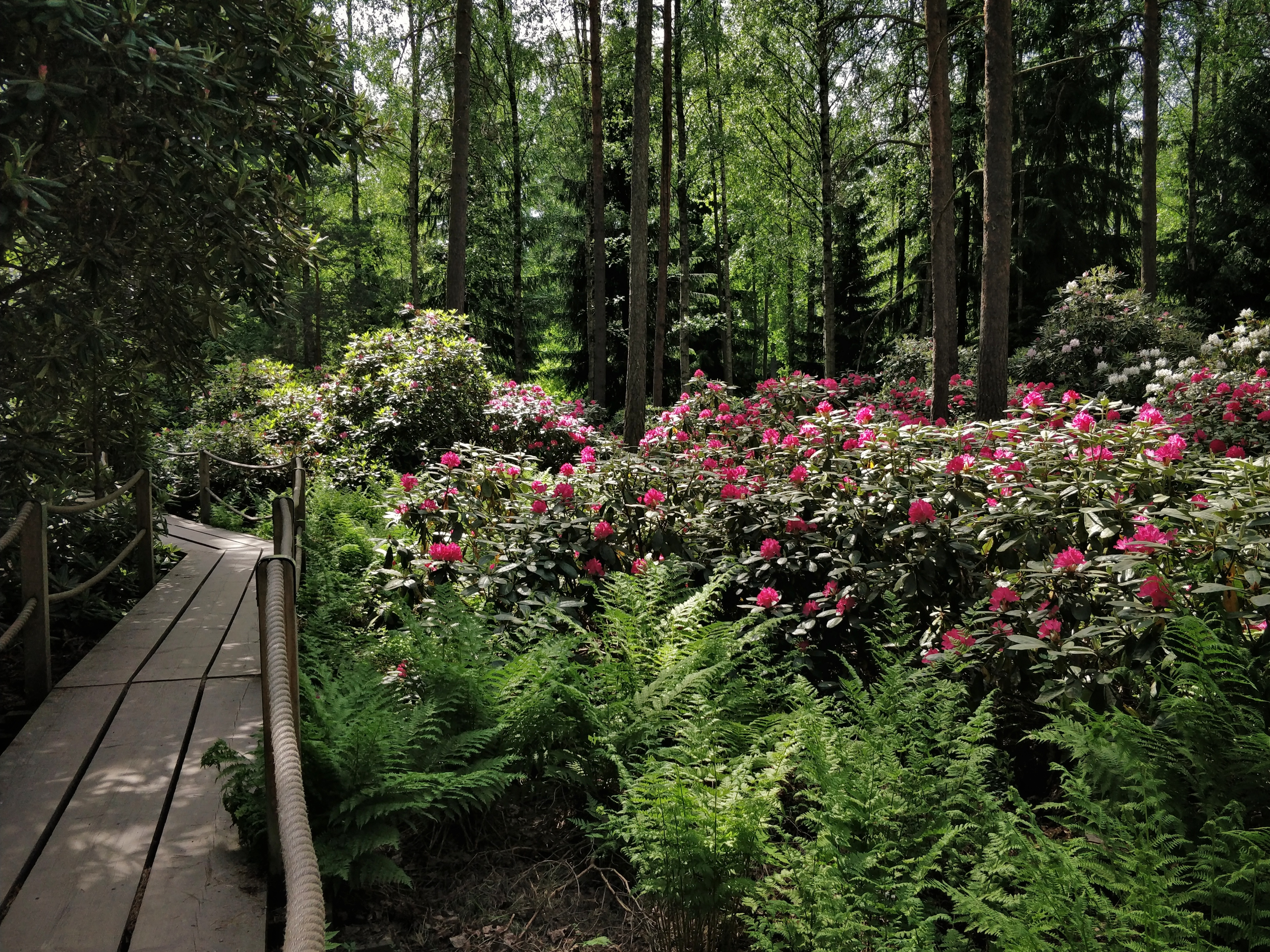 Flowers in the Haaga Rhododendron Park (Haagan Alppiruusupuisto)